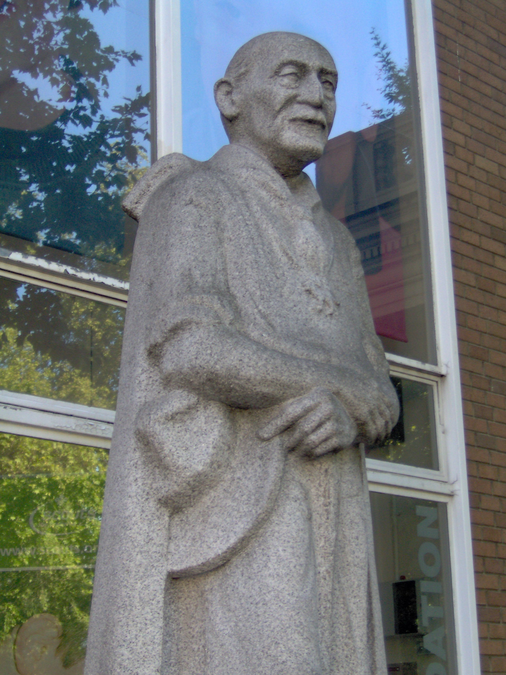 Baden Powell statue, South Kensington, Westminster, London